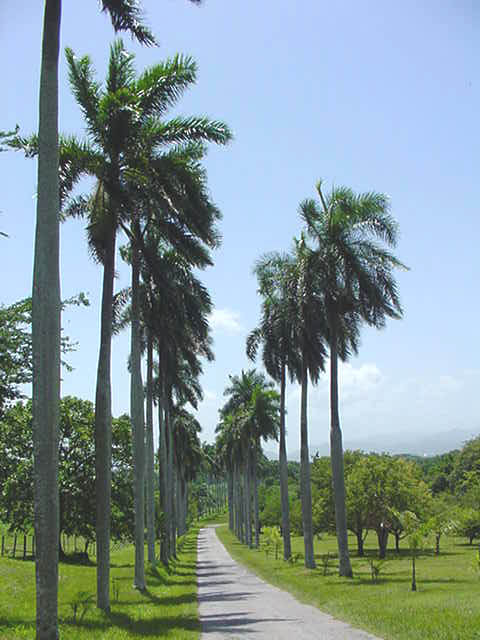 Wilder Mendez